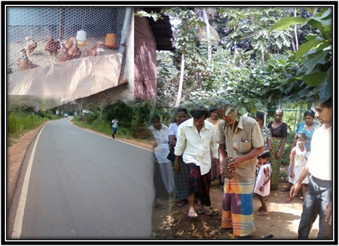 ගුරුලෑපොල